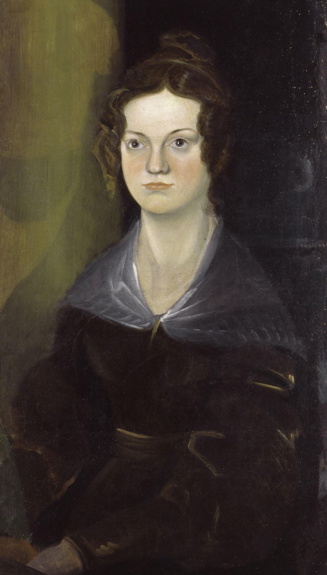 Charlotte Brontë, as painted by her brother Patrick Branwell Brontë (died 1848), from a portrait with her sisters.